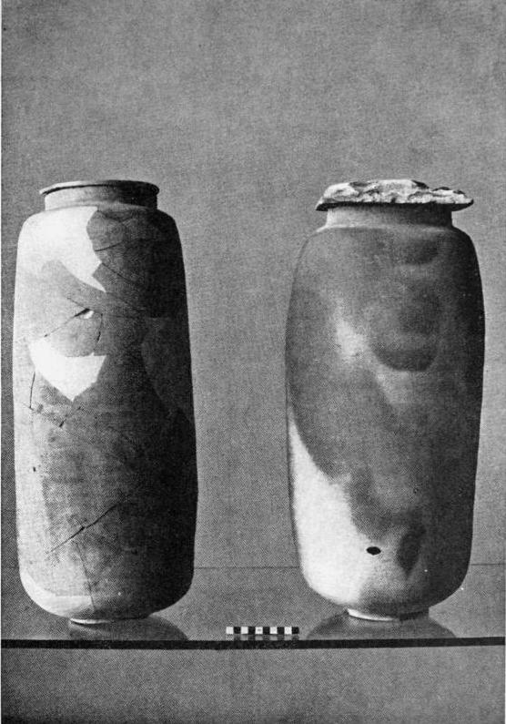 Seen here are two of the pots in which fragments and scrolls of the Dead Sea Scrolls were found at Qumran.